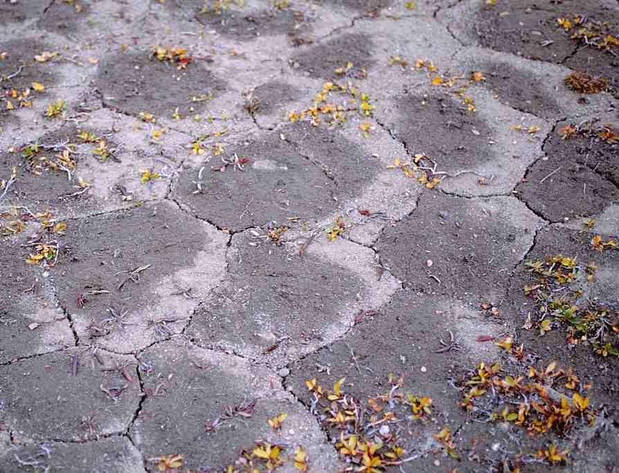 Polygon in the tundra of Geodetic Hills on Axel Heiberg Island